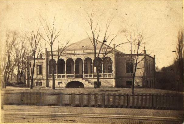 Concert du Boulevard (founded as Tivoli Sommerlyst) was a concert hall/amusement theatre at Vesterbrogade in Copenhagen. Demolished 1883 and replaced by National Scala.